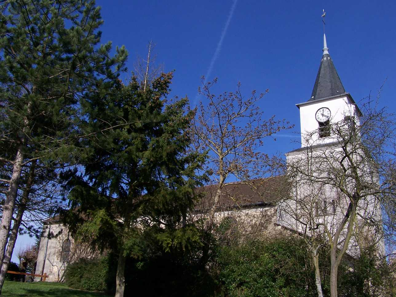 Church of Châteaufort (Yvelines, France)